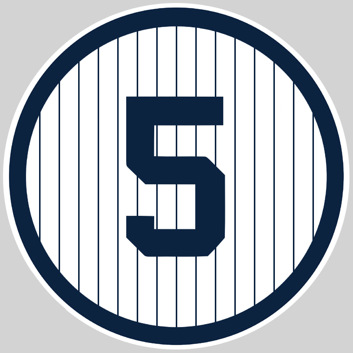 Image represents the current version of Joe DiMaggio's No. 5 seen in Monument Park in Yankee Stadium